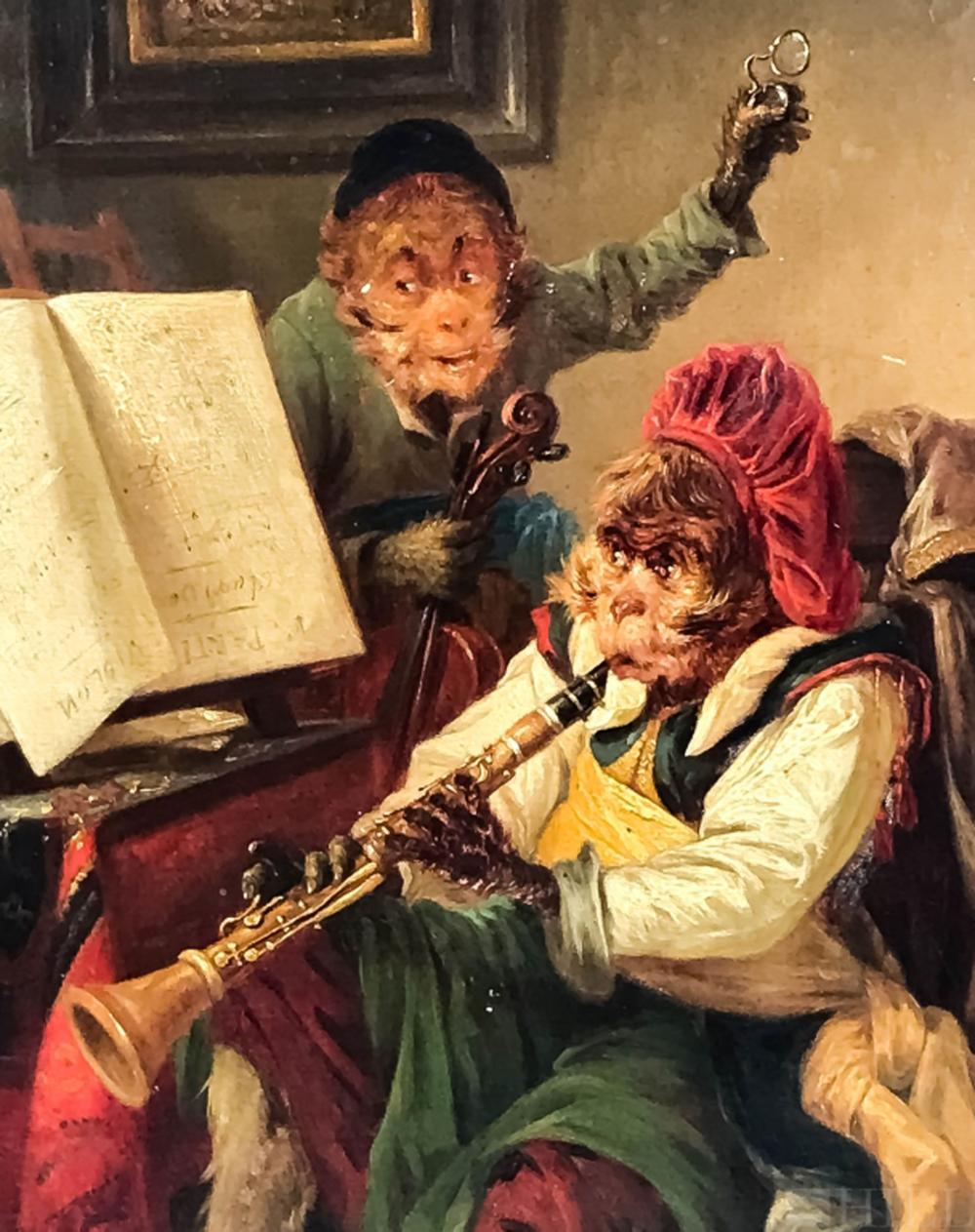 Monkeys playing music